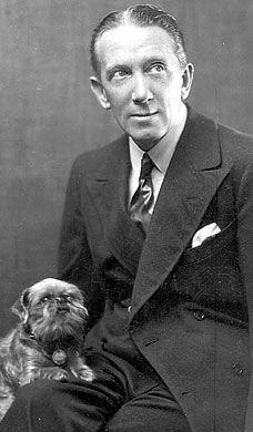 Gerald du Maurier, seated with a dog